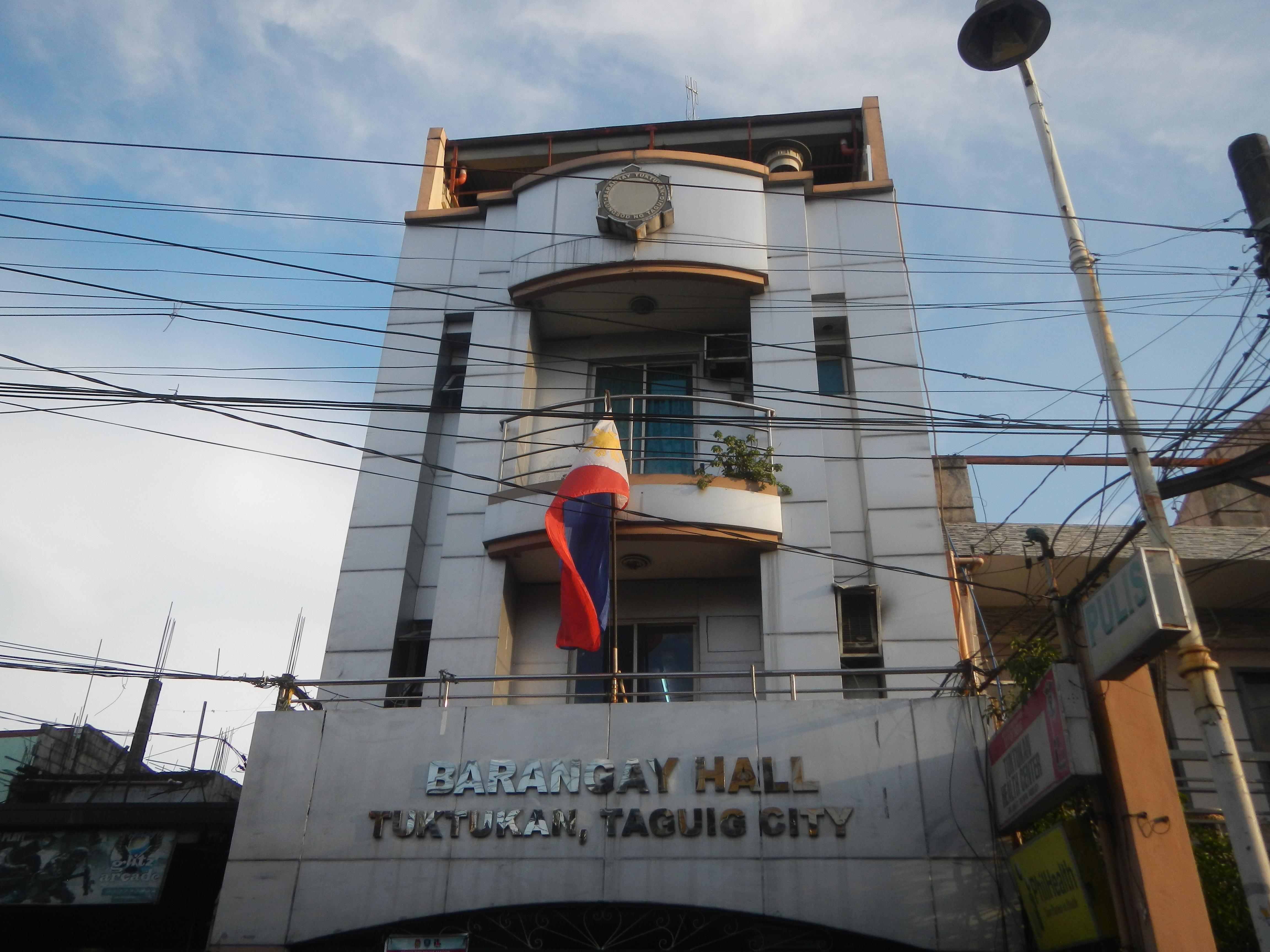 M. L. Quezon Street - Taguig 14°30'0"N 121°3'46" Saint Chamuel College (Tuktukan, Taguig City) San Bartolome Chapel (Tuktukan, Taguig City) Hagonoy, Taguig City San Miguel, Taguig City Taguig Science High School Taguig River Barangays San Miguel 14°31'3"N 121°4'7"E Hagonoy 14°30'26"N 121°4'9"E New Lower Bicutan Taguig City (Note: Judge Florentino Floro, the owner, to repeat, Donor Florentino Floro of all these photos hereby donate gratuitously, freely and unconditionally all these photos to and for Wikimedia Commons, exclusively, for public use of the public domain, and again without any condition whatsoever).